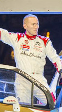 Rally Sweden 2014 Citroen DS3 WRC,Citroen Total Abu Dhabi WRT,Citroen Total Abu Dhabi World Rally Team,Kris Meeke,Motorsport,Paul Nagle,Podium,Rally,Rally Sweden,Rallye,Rallye Schweden,Siegerehrung